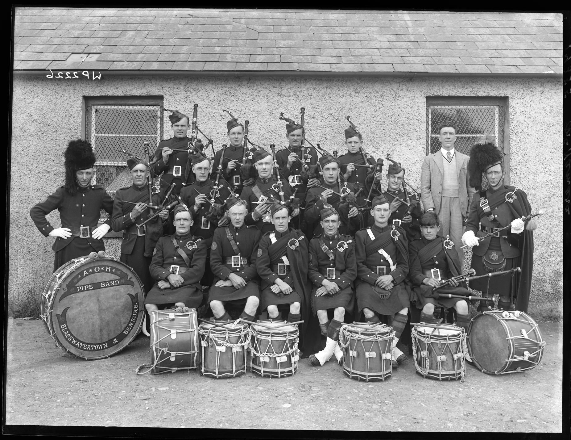 Creator: H. Allison & Co. Photographers Date: c1930 Original Format: Glass Plate Negative, 9.5 X 7.5 inches Description: Group portrait of Blackwatertown & Benburb Ancient Order of Hibernians Pipe Band. PRONI Ref: D2886/D/7 Copying and copyright: Please For Copy Orders, contact